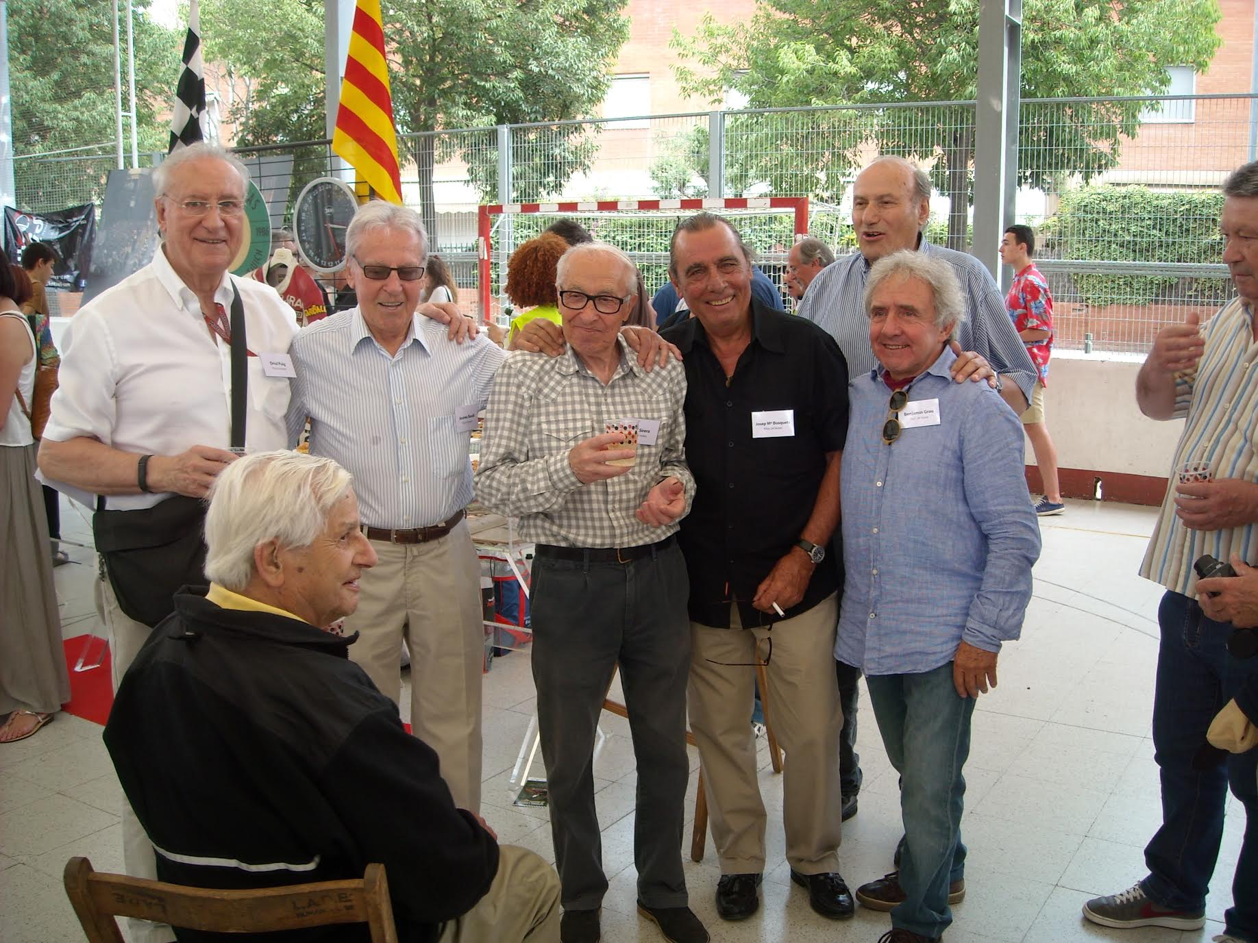 Form left to right: Oriol Puig Bultó, Andreu Basolí, Enric Sirera, Josep Maria Busquets, Min Grau and Josep Isern (behind), during the II Llotja del Vehicle Clàssic de Mollet (june 2015)